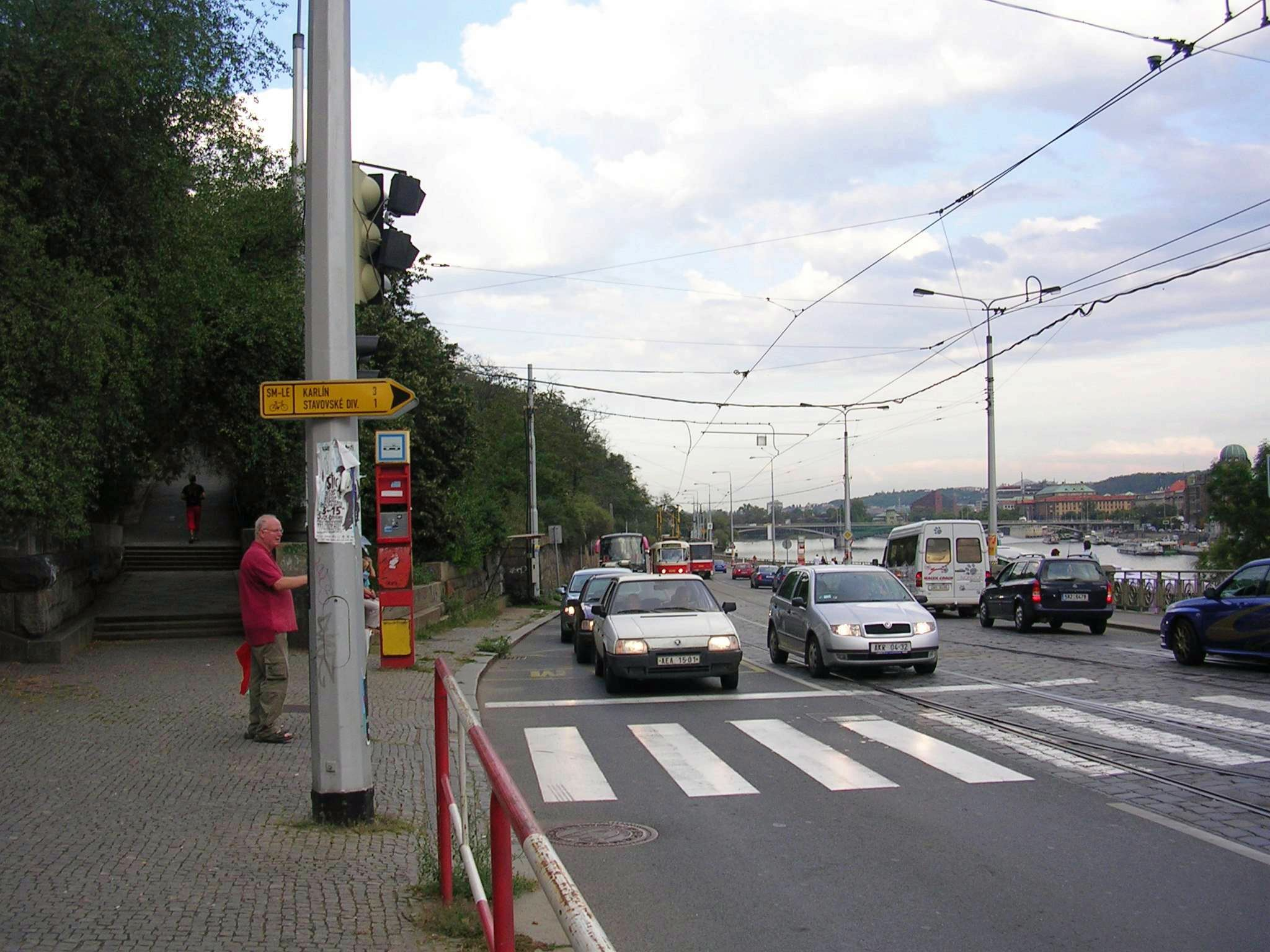 Prague, the Czech Republic. Edvard Beneš's Riverside near Čech's Bridge.